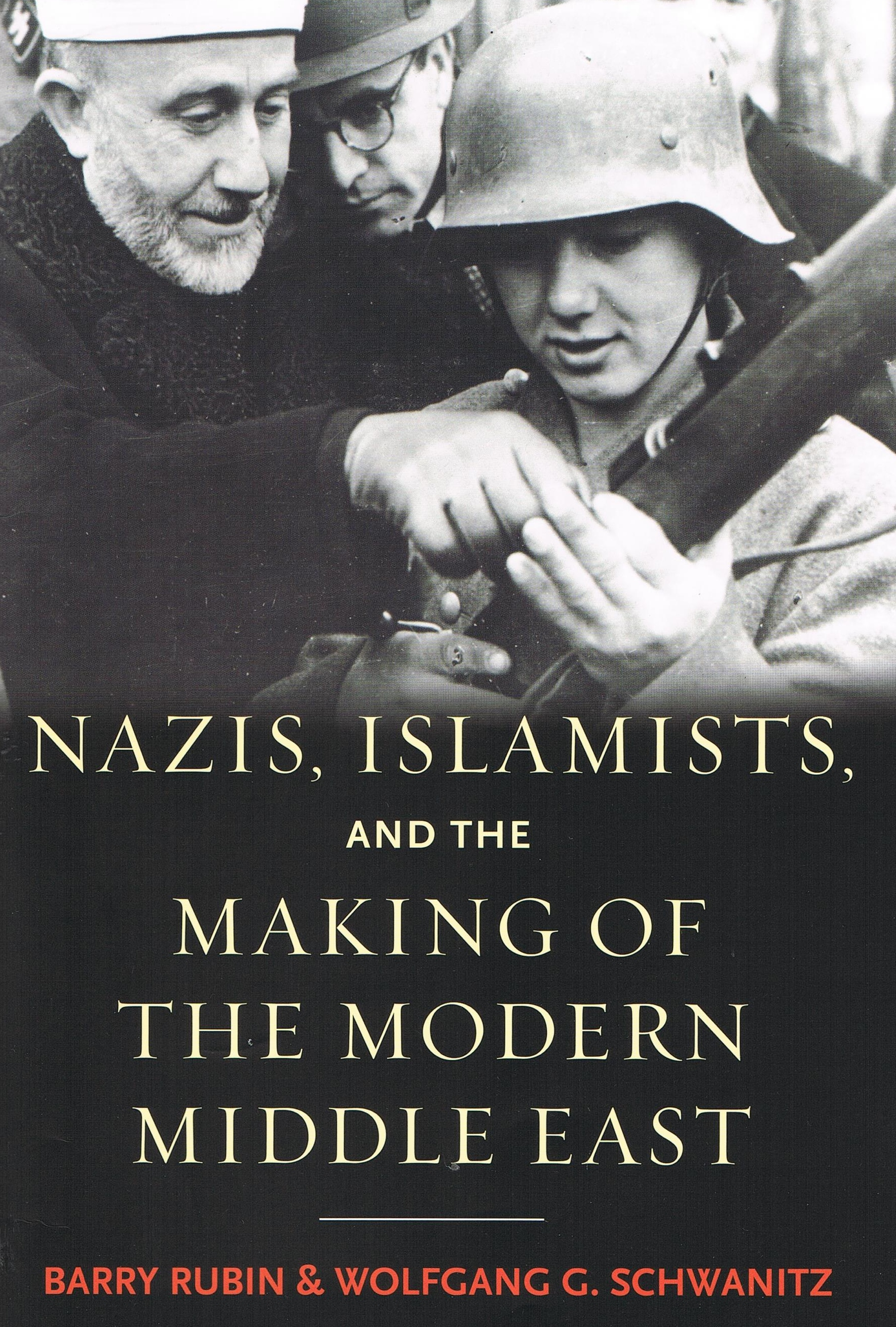 Book cover of "Nazis, Islamists and the Making of the Modern Middle East." (New Haven and London: Yale University Press, 2014). The jacket picture is based on a photograph made by Mielke on November 1, 1943. It is in the public domain within the Bundesarchiv holdings number "Bild 146-1978-070-05A." The photograph shows the Grand Mufti of Jerusalem Muhammad Amin al-Husaini watching the training of Bosnian SS Muslim Voluntier troops in November 1943. The jacket composition was made by Yale University Press.